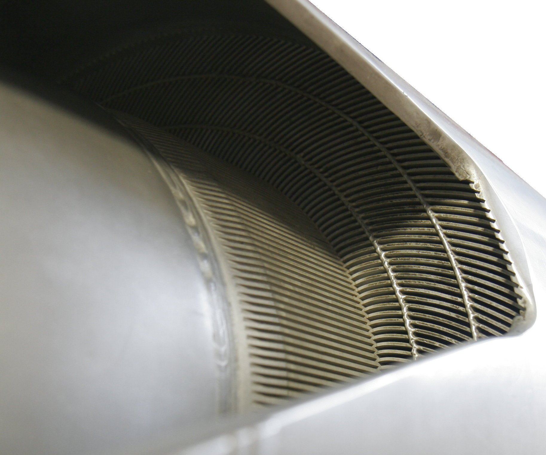 Close-up of the nuclear fuel of the research reactor of the Institut Laue-Langevin. This is actually a replica of a real core, shown as exhibit in the entrance hall of the institute. See here for another view.